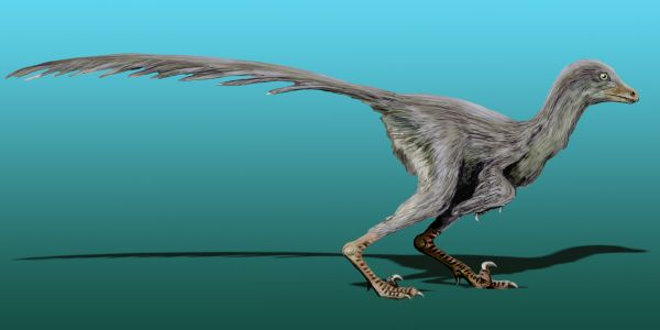 Tianyuraptor